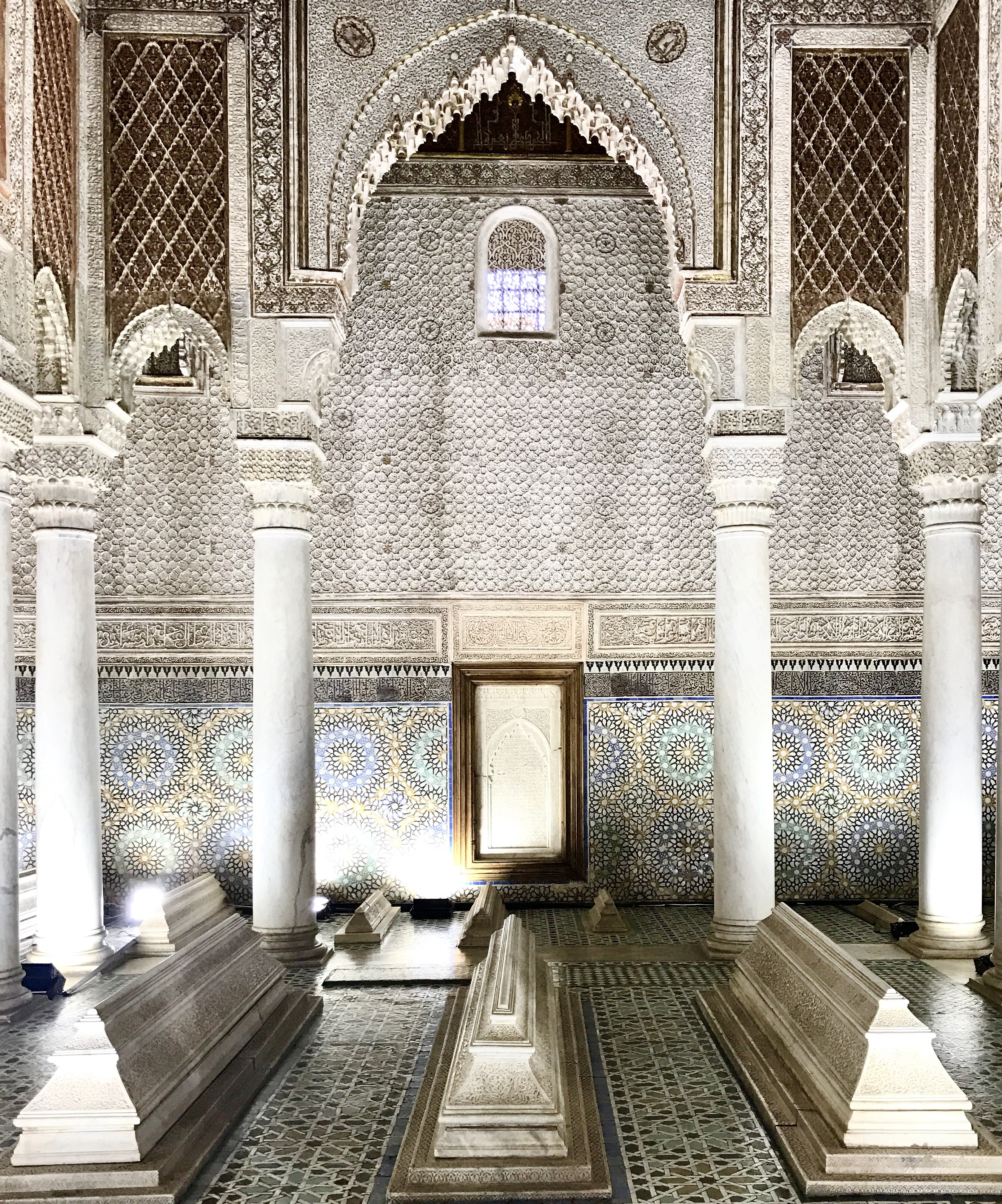 Tombs in the old city of Marrakesh.